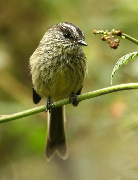 An Agile Tit-tyrant Anairetes agilis photographed in the Cayambe-Coca Reserve, near Papallacta Pass, Ecuador. 3/23/2007